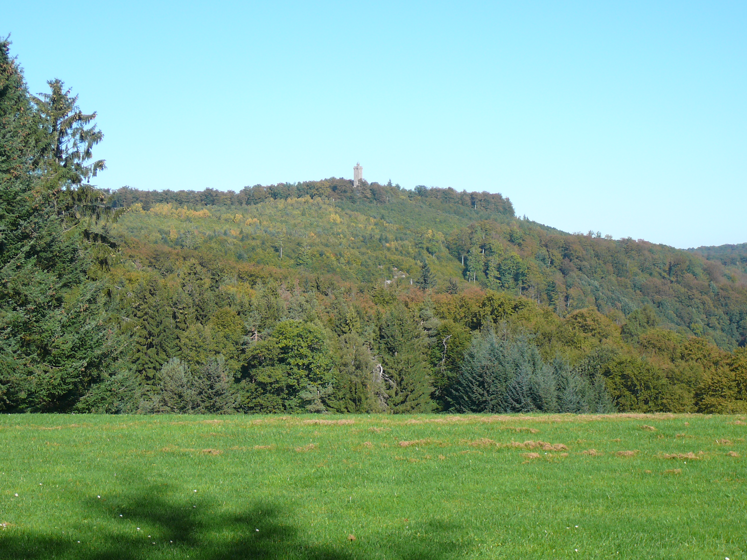 Blick vom Hermersberger Hof zum Weißenberg mit Luitpoldturm